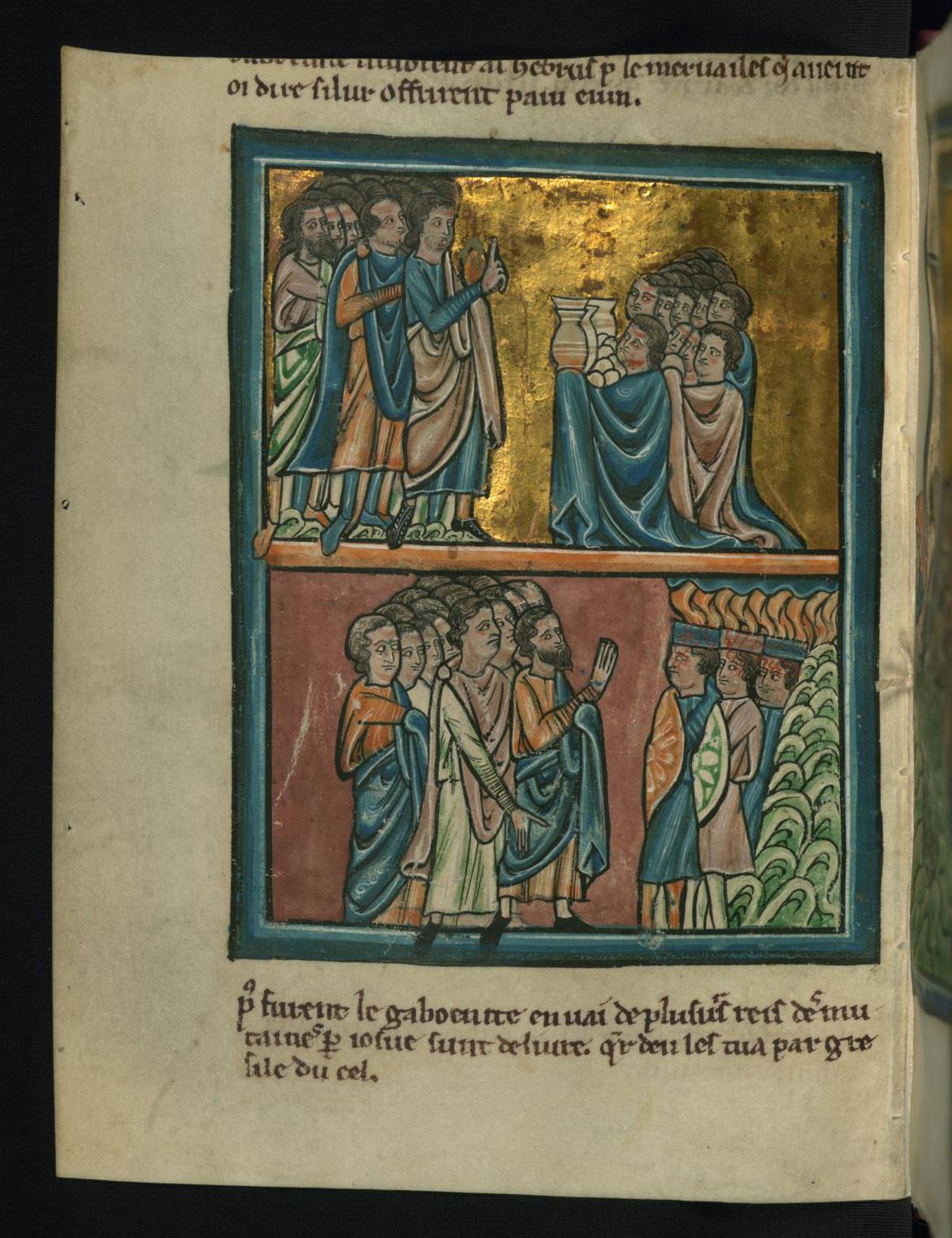 These images from Walters manuscript w.106 depict scenes from the story of Joshua. Top: When the inhabitants of Gibeon heard what the Israelites had done to Ai, they decided to make peace with them. They pretended to be from far away and dressed up in worn-out clothes, carried old provisions, and told the Israelites that they were their servants. And Joshua made peace with them. Bottom: The kings of the Amorites made war against Gibeon. The Gibeonites beseeched Joshua to help them.